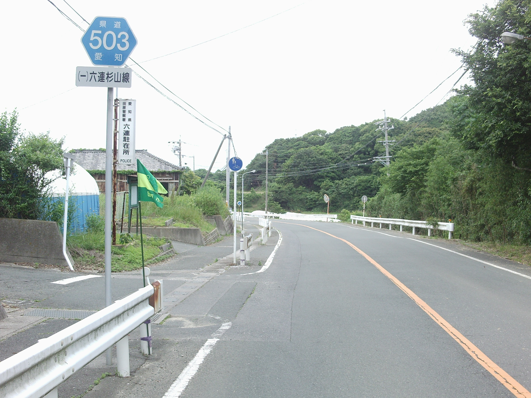 Aichi prefectural road No.503 in Mutsurecho, Tahara, Aichi.